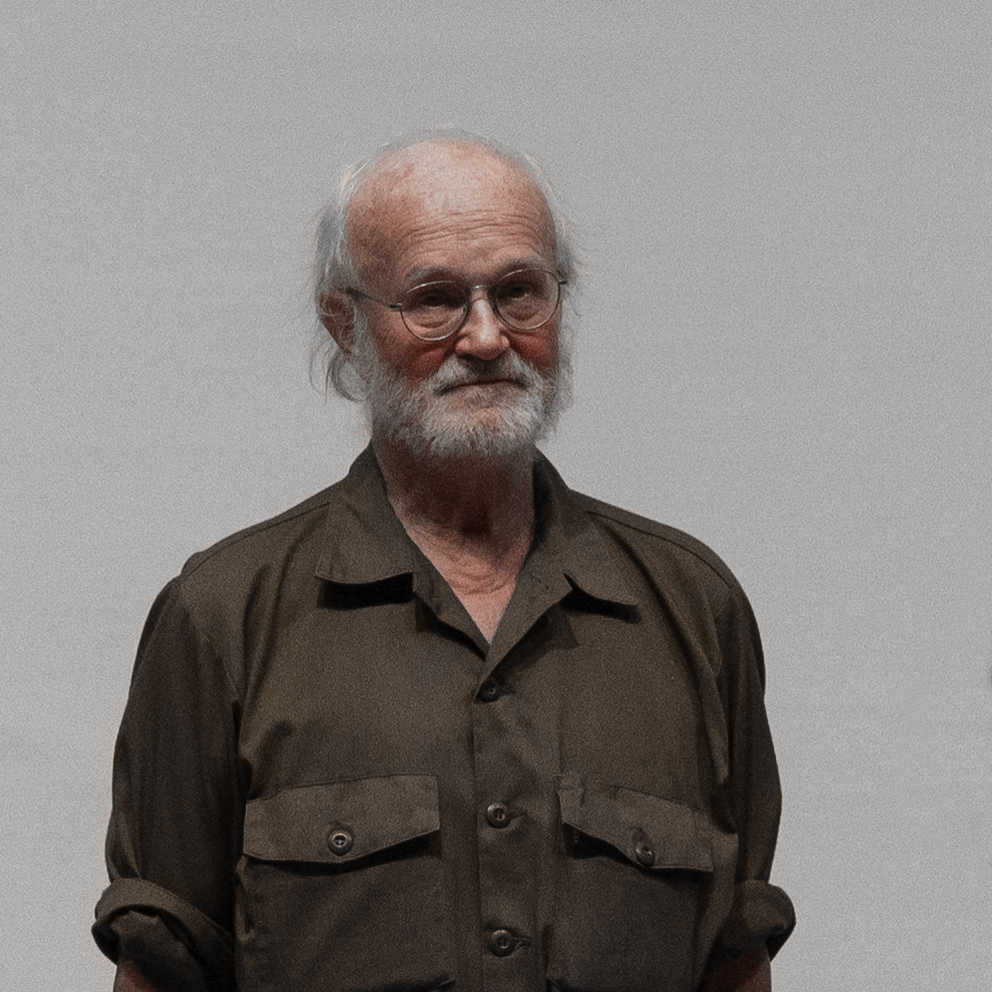 Josef Koudelka at Essen, Folkwang-Museum, getting Erich-Salomon-Preis by Deutsche Gesellschaft für Photographie, 07th november 2015